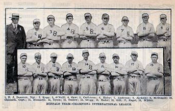 The 1916 Buffalo Bisons, a team featuring George Jackson.